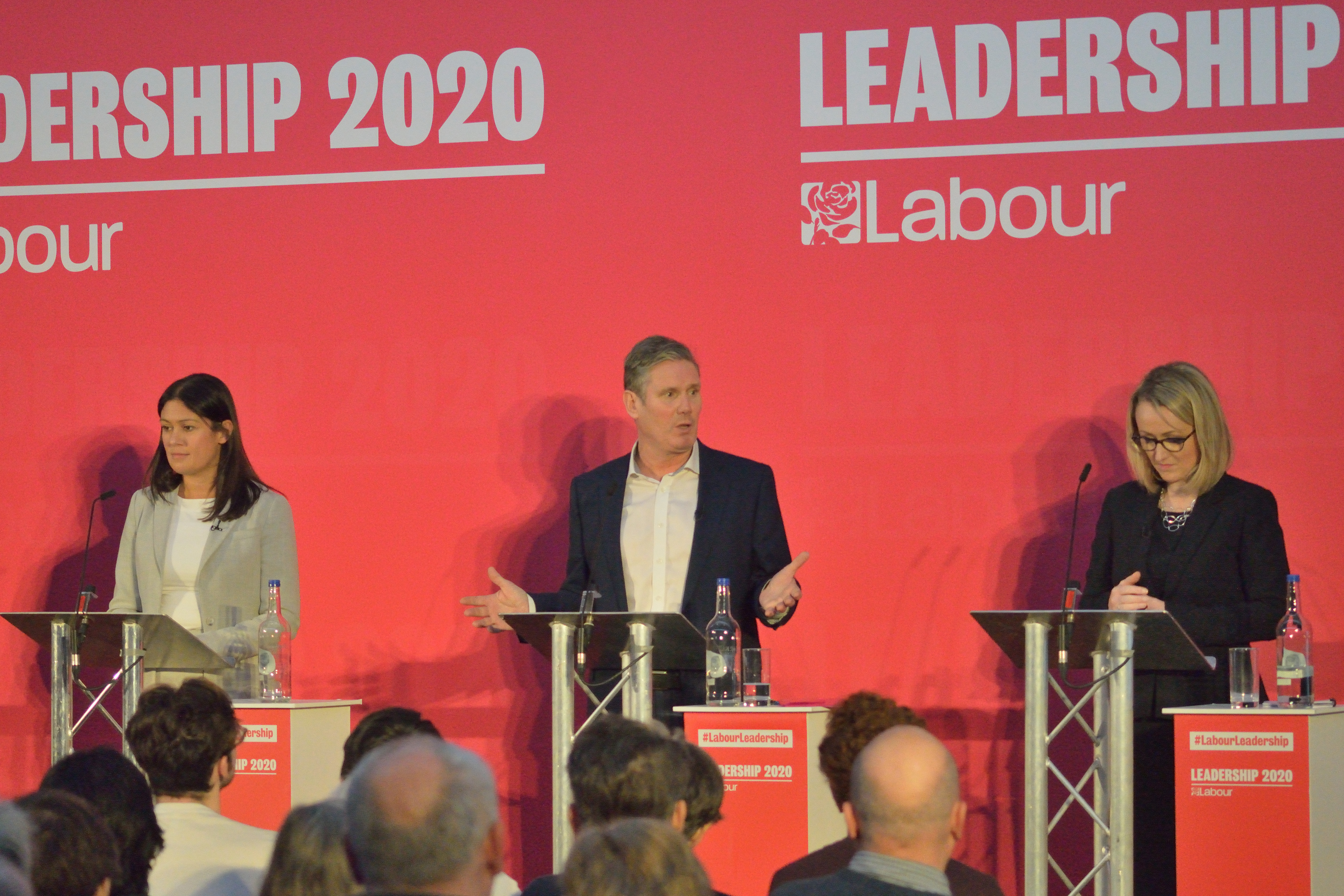 Lisa Nandy, Keir Starmer and Rebecca Long-Bailey at the 2020 Labour Party leadership election hustings in Bristol on the morning of Saturday 1 February 2020, in the Ashton Gate Stadium Lansdown Stand.